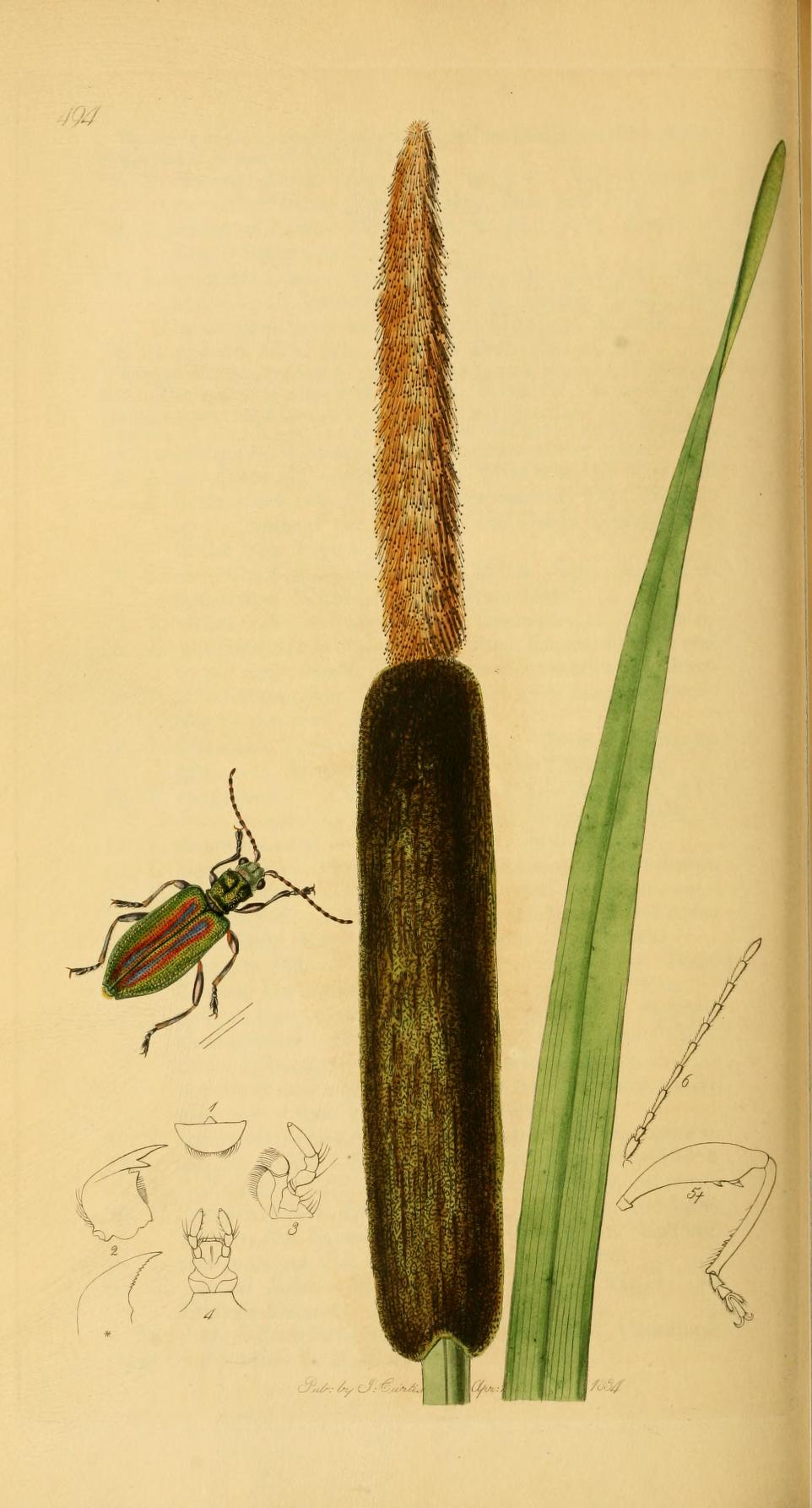 An illustration from British Entomology by John Curtis. Coleoptera: Donacia typhae (Reed-mace Donacia) Donacia vulgaris; with dissections from D. cincta Germ.